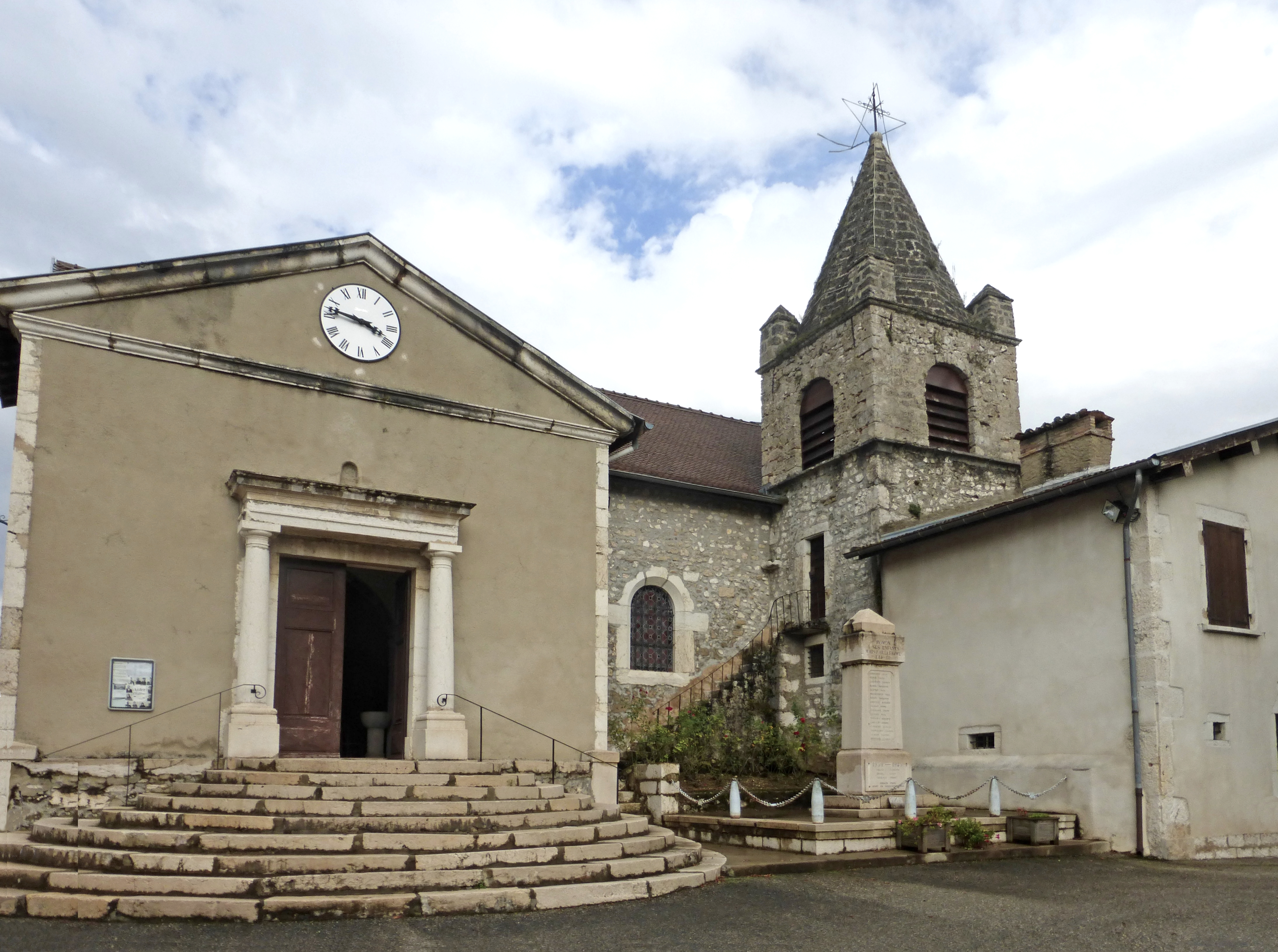 An overall view of the Church of Rovon. The church tower was built in the 14th century while the rest dates mostly from the 16th century. On the right of the picture, the house is the Priest's home. Rovon, Isère, France October 2014